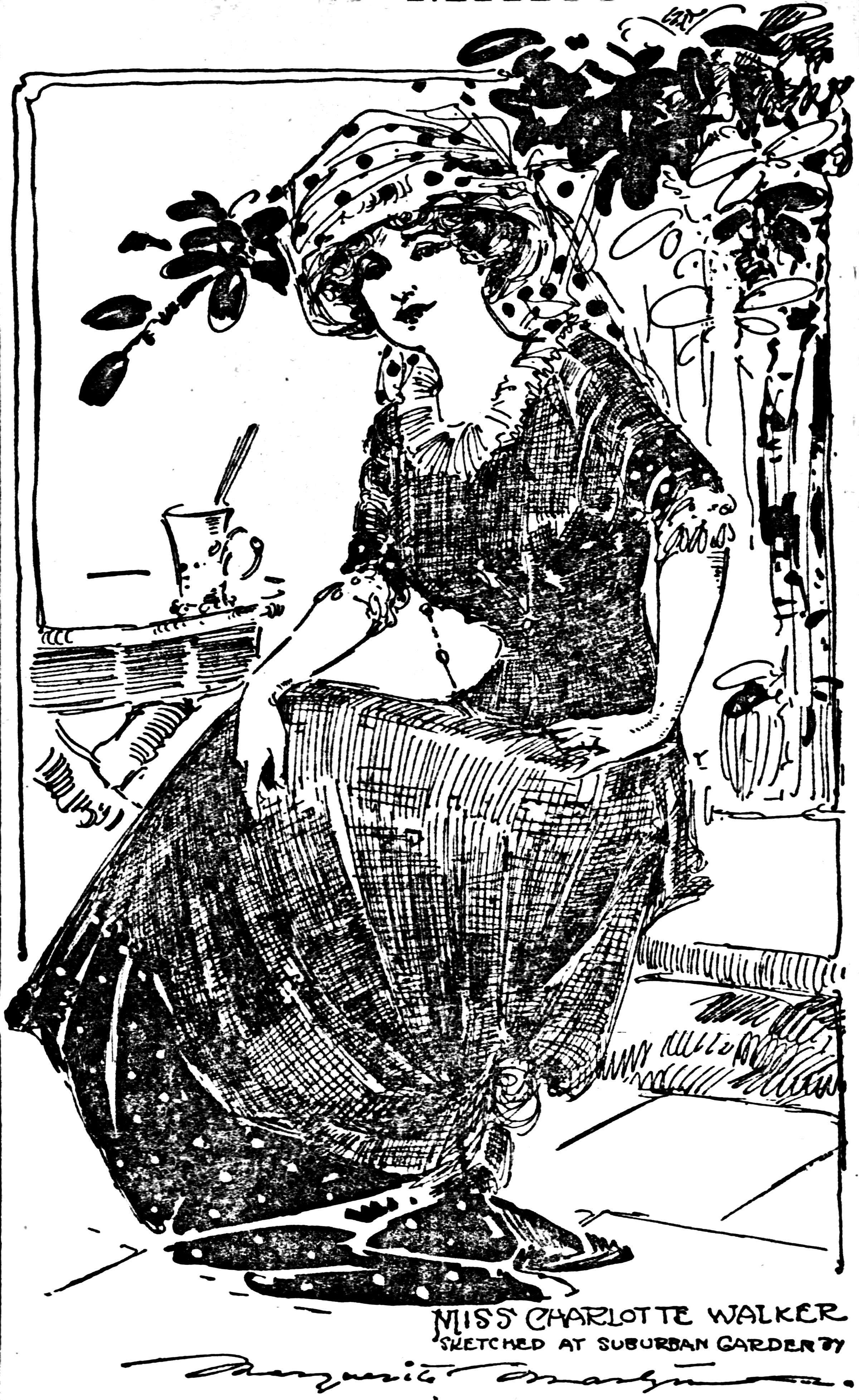 Actress Charlotte Walker, as sketched by Marguerite Martyn; published in the St. Louis Post-Dispatch, June 17, 1910